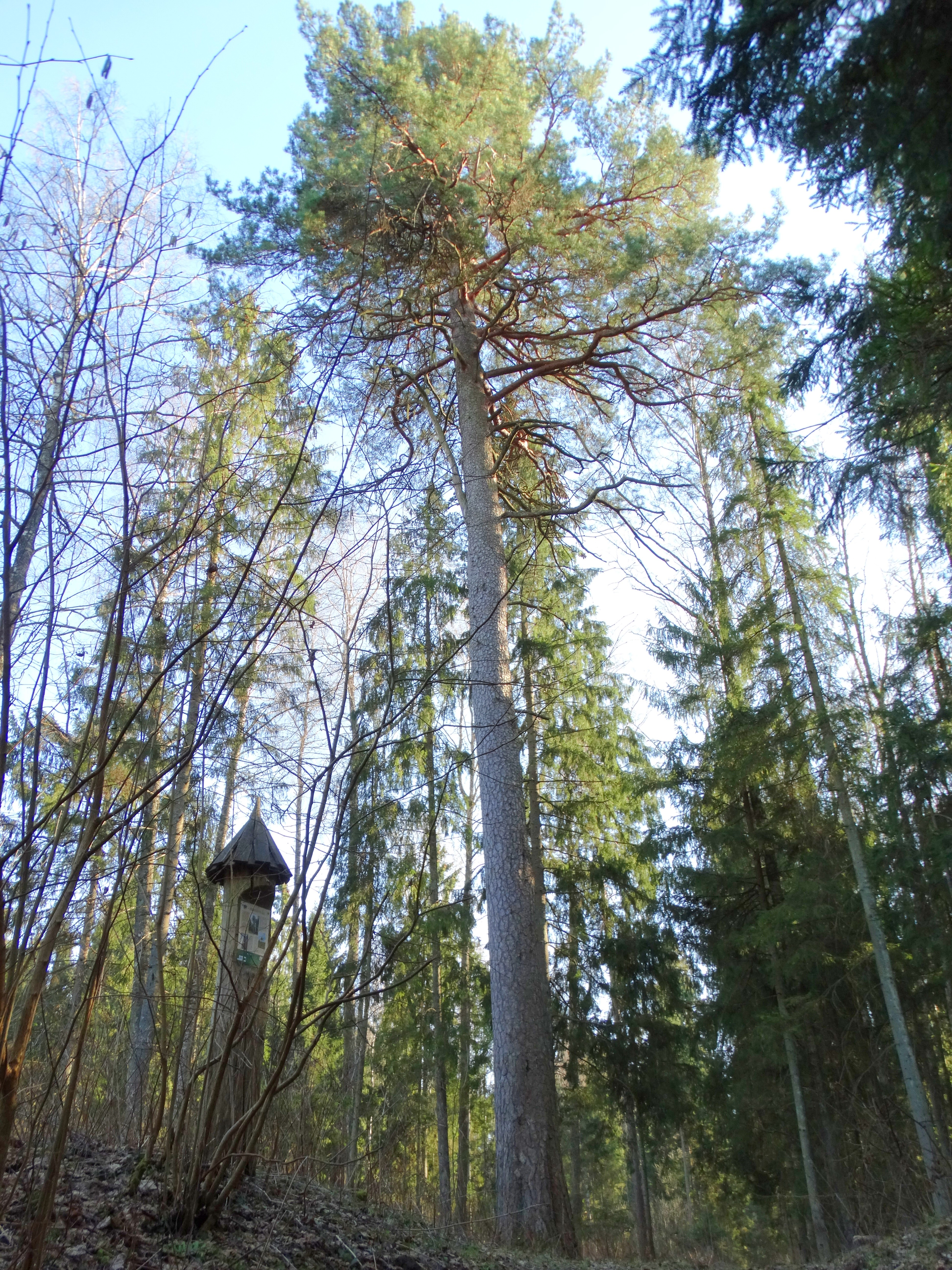 Albinas Pine, Paraudžiai Forest, Šiauliai district, Lithuania